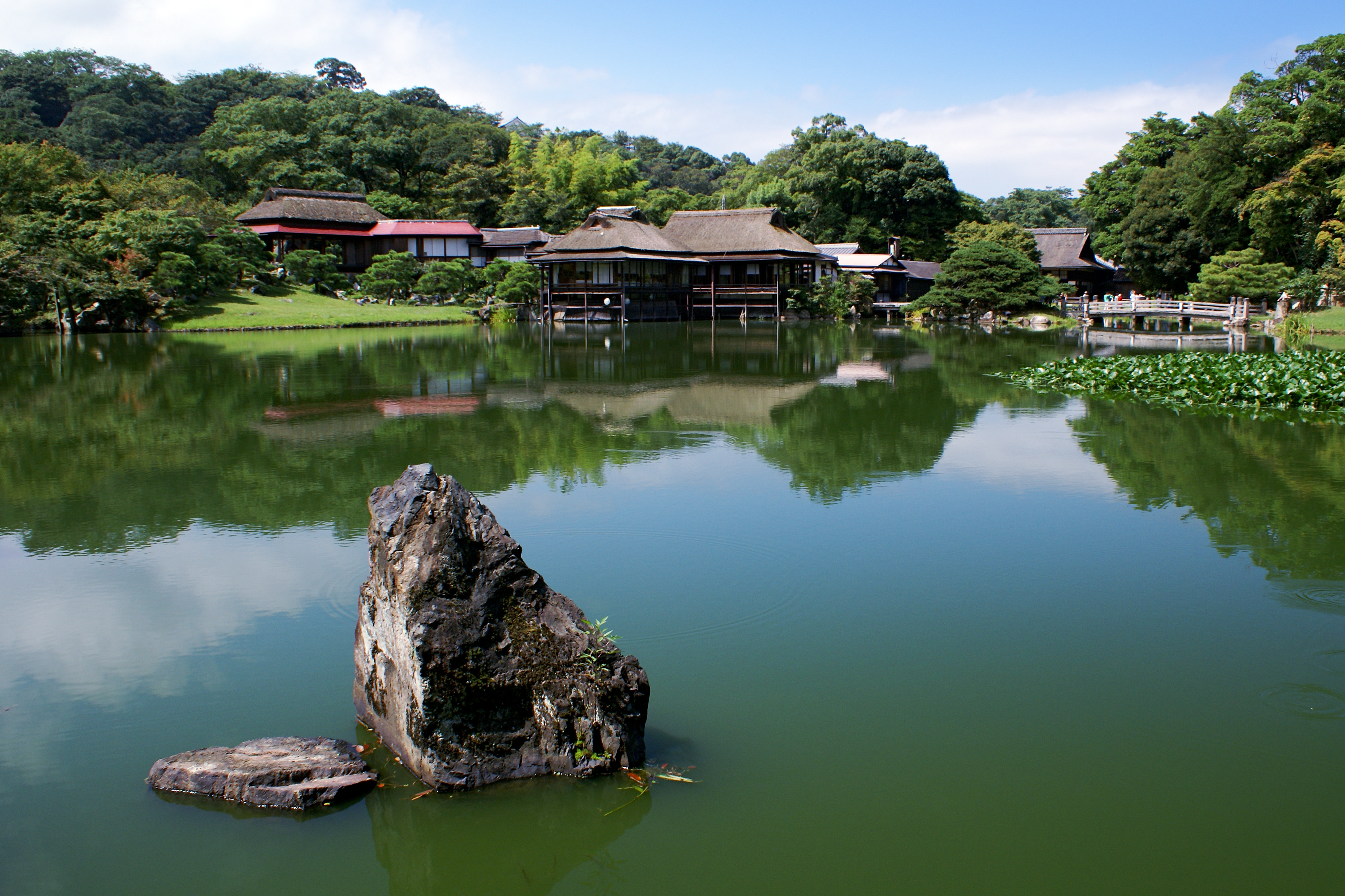 Genkyuen garden in Hikone, Shiga prefecture, Japan